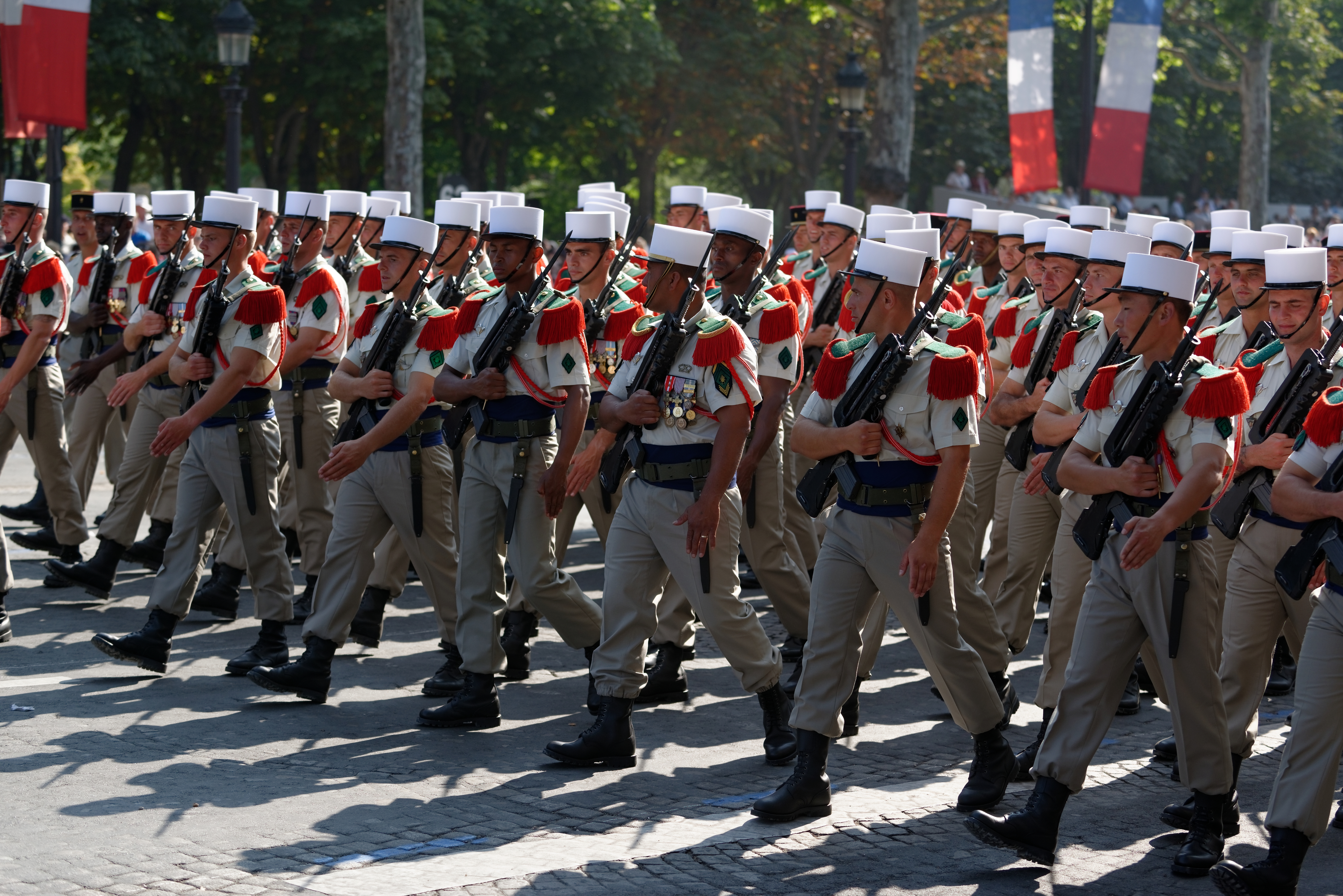 Men of the 2nd Foreign Parachute Regiment at the Bastille Day 2013 military parade on the Champs-Élysées in Paris.